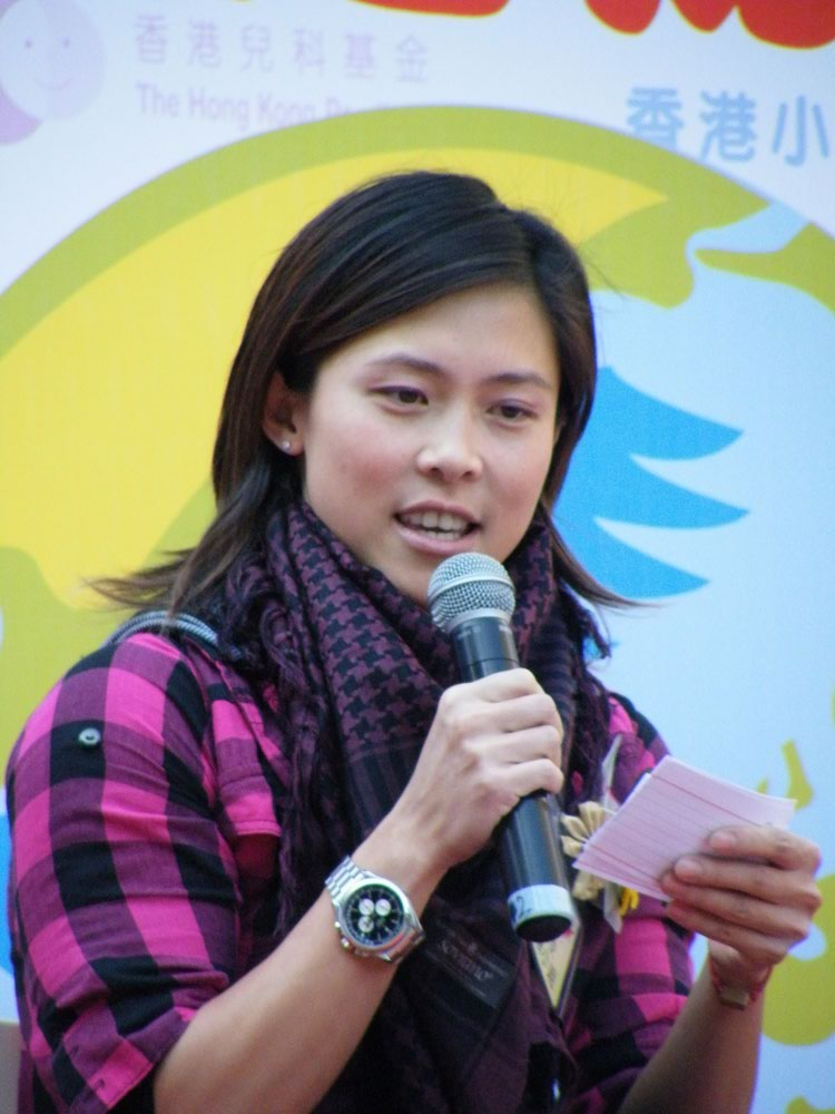 TSAI Hiu Wai Sherry(蔡曉慧) was being the guest in the publicity on 2008.11